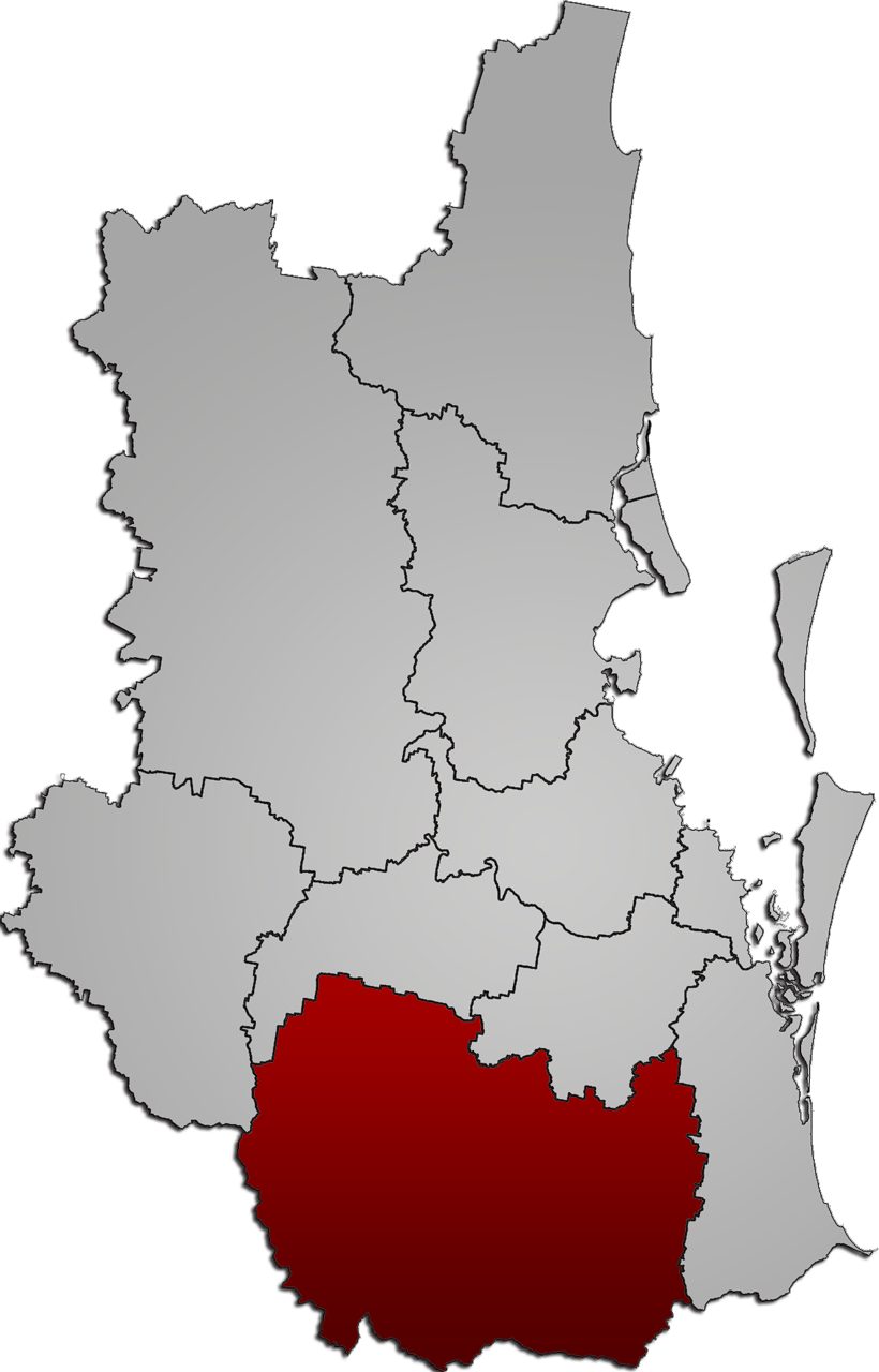 Scenic Rim Regional Council from 15 March, 2008